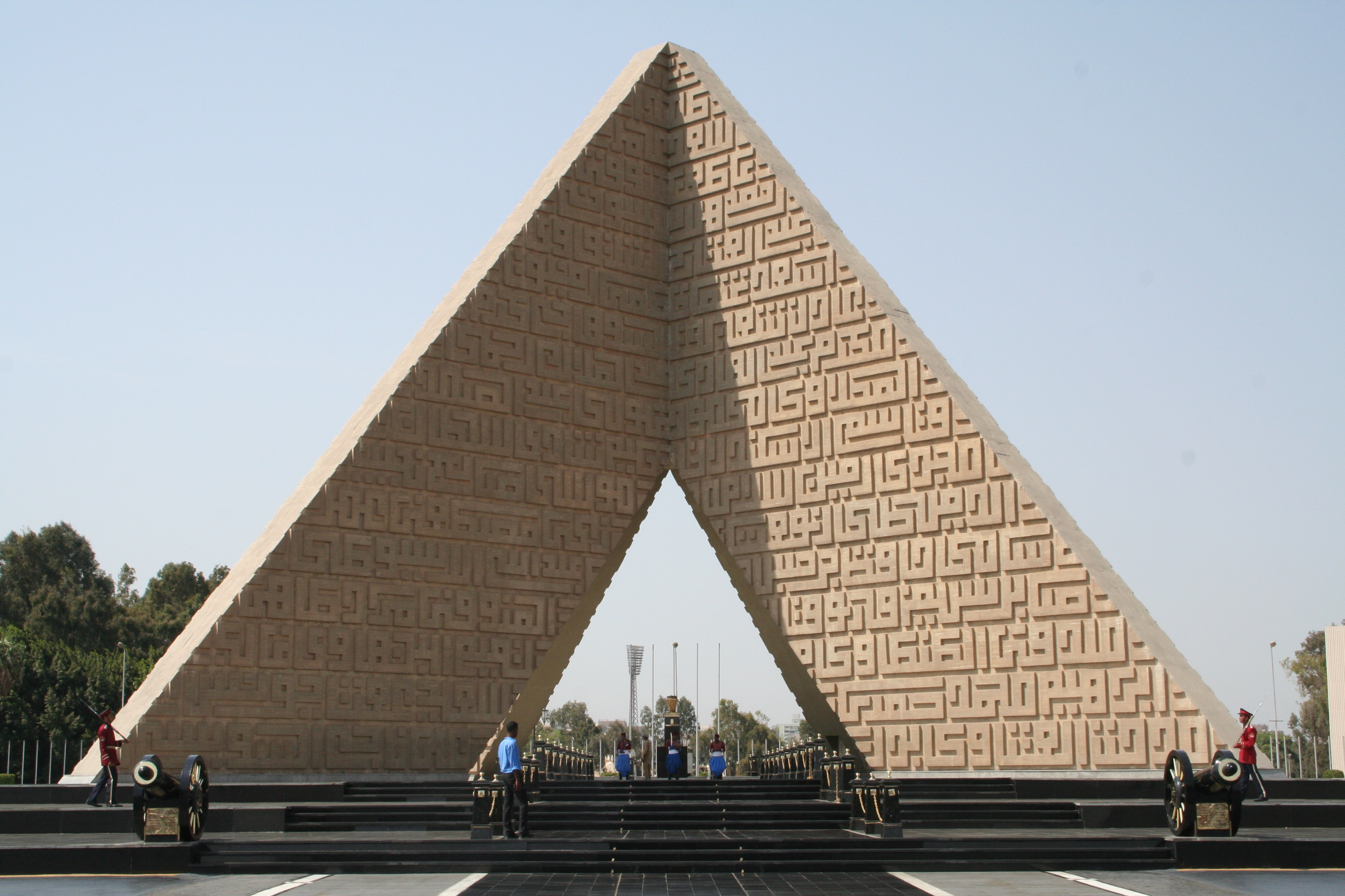 Tomb of the unknown Soldier, and Tomb of Anwar as-Sadat, in Nasr City, Greater Cairo.